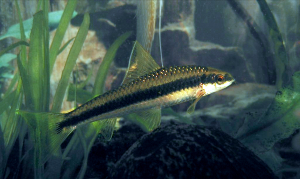 Crossocheilus sp. Most likely not the siamensis algae eater Crossocheilus siamensis Definitely not C. siamensis; I kept these and they look very different (apart from general habitus). The snout is far too blunt, C. siamensis is very pointy-nosed. Probably Garra cambodgiensis. -- dysmorodrepanis Not Garra cambodgiensis because no mental disc is apparent. --147.251.80.93 15:02, 10 April 2013 (UTC) Author Rafal Konkolewski 2004